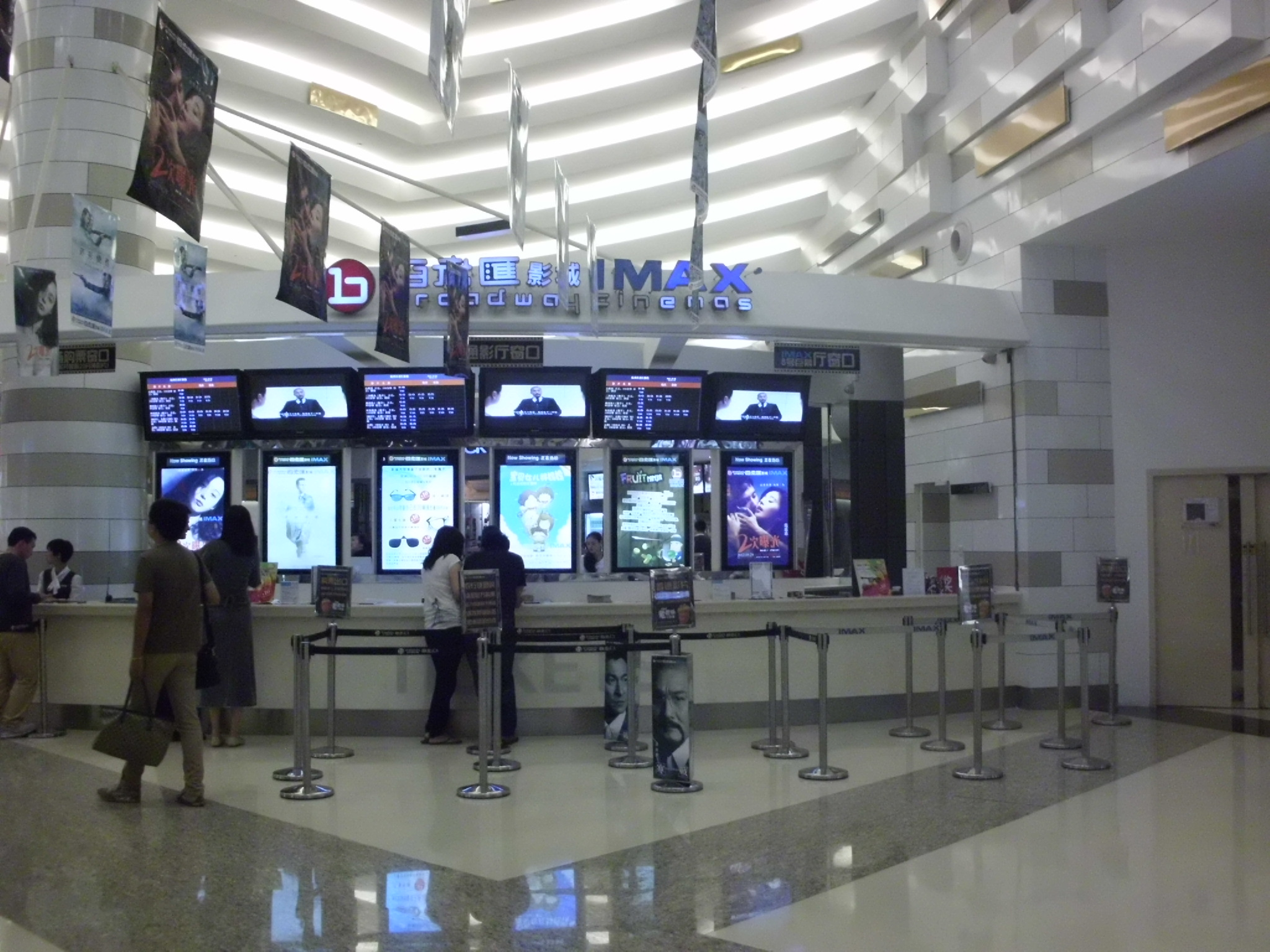 Hangzhou Broadway Cinema